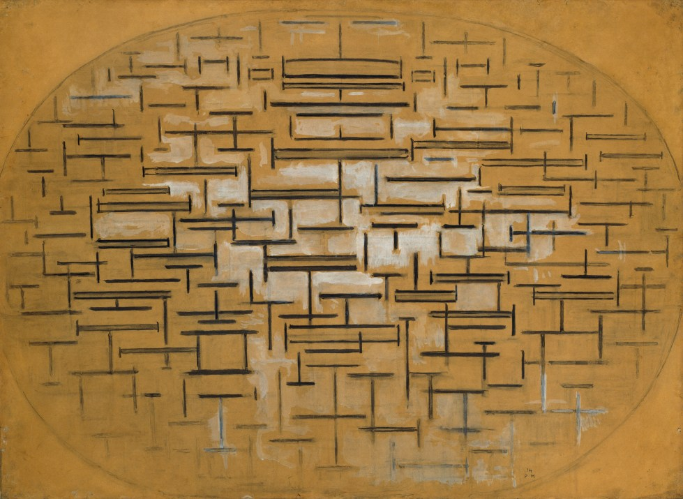 Ocean 5, 1915 Charcoal and gouache on paper, glued on homosote panel in 1941 by Mondrian paper 87.6 x 120.3 cm; panel 90.2 x 123 x 1.3 cm Peggy Guggenheim Collection, Venice 76.2553 PG 38